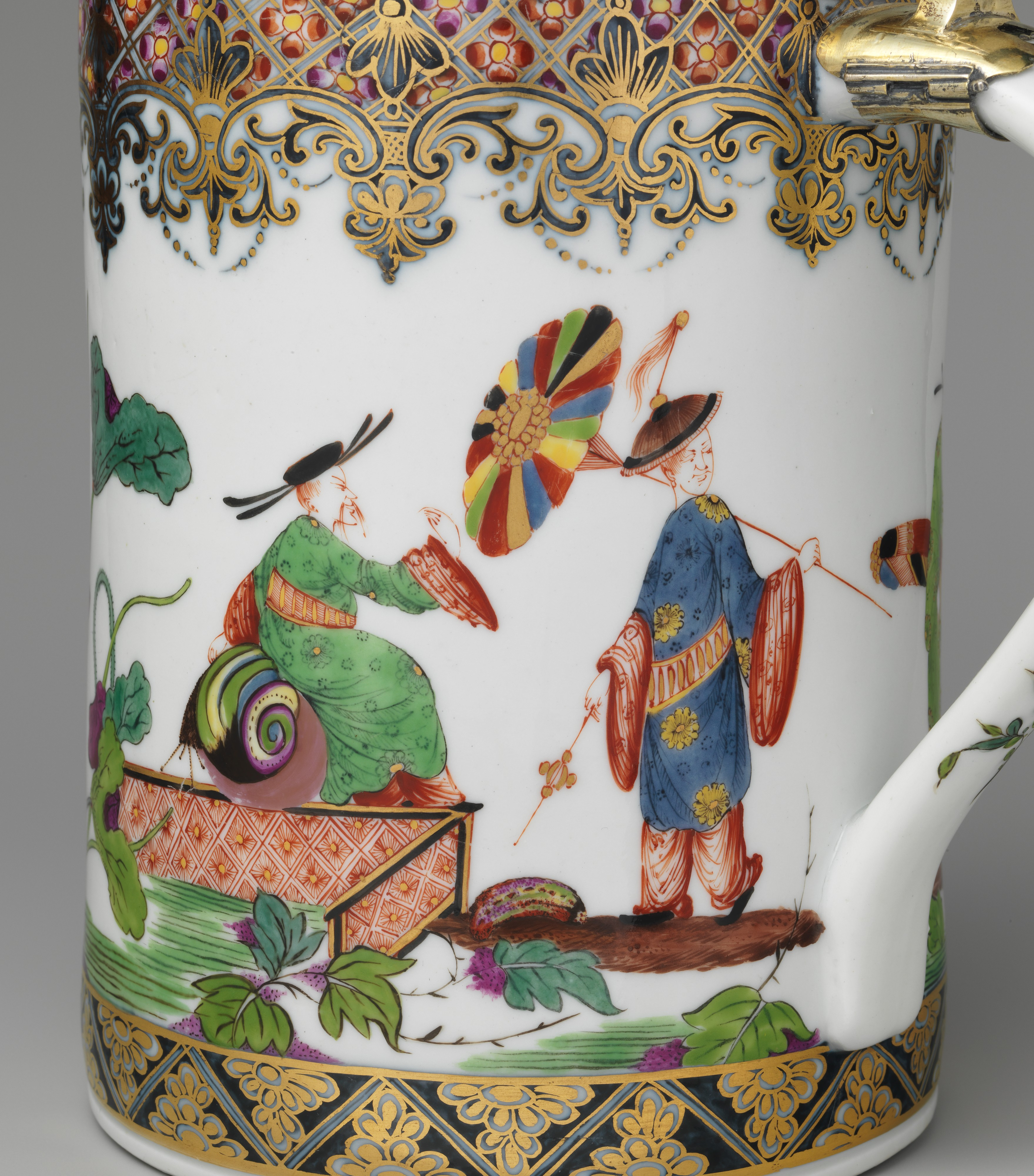 German, Meissen; Tankard; Ceramics-Porcelain